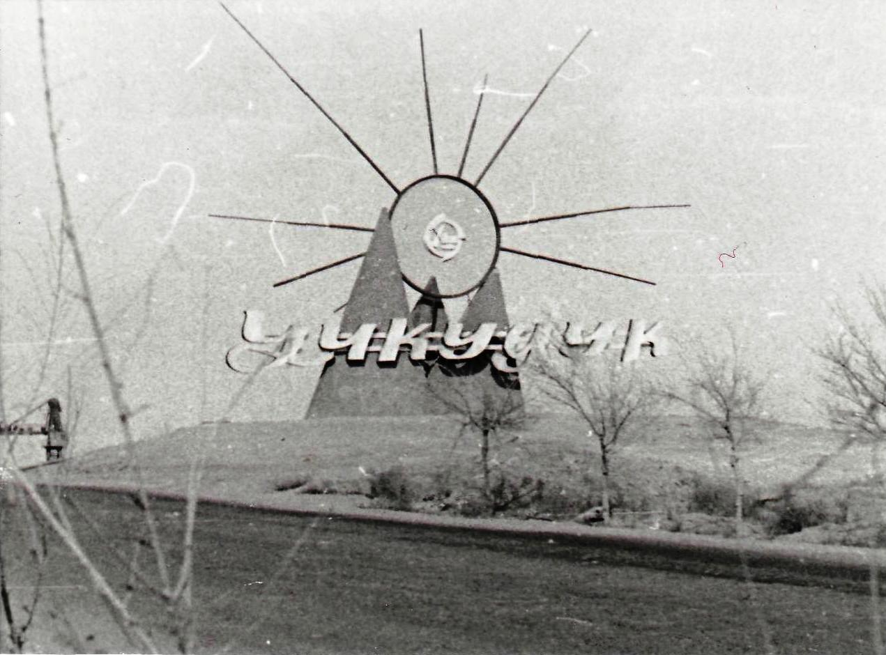 Uchkuduk. Entering the City (1983)